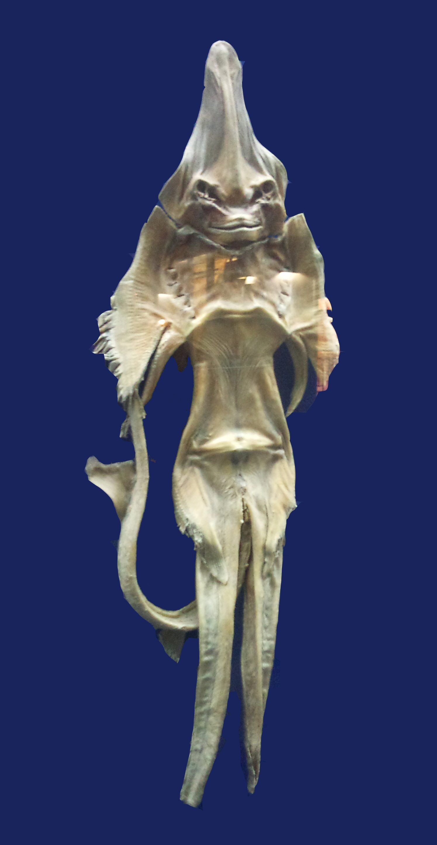 Mashhad museum. The exhibit carries a sign describing this as a mummified "Sea Devil" (Persian: شیطان دریا), and although sea devil can also mean a (manta) ray, the sign identifies the specimen as a Ceratiidae or angler fish.[1][2]